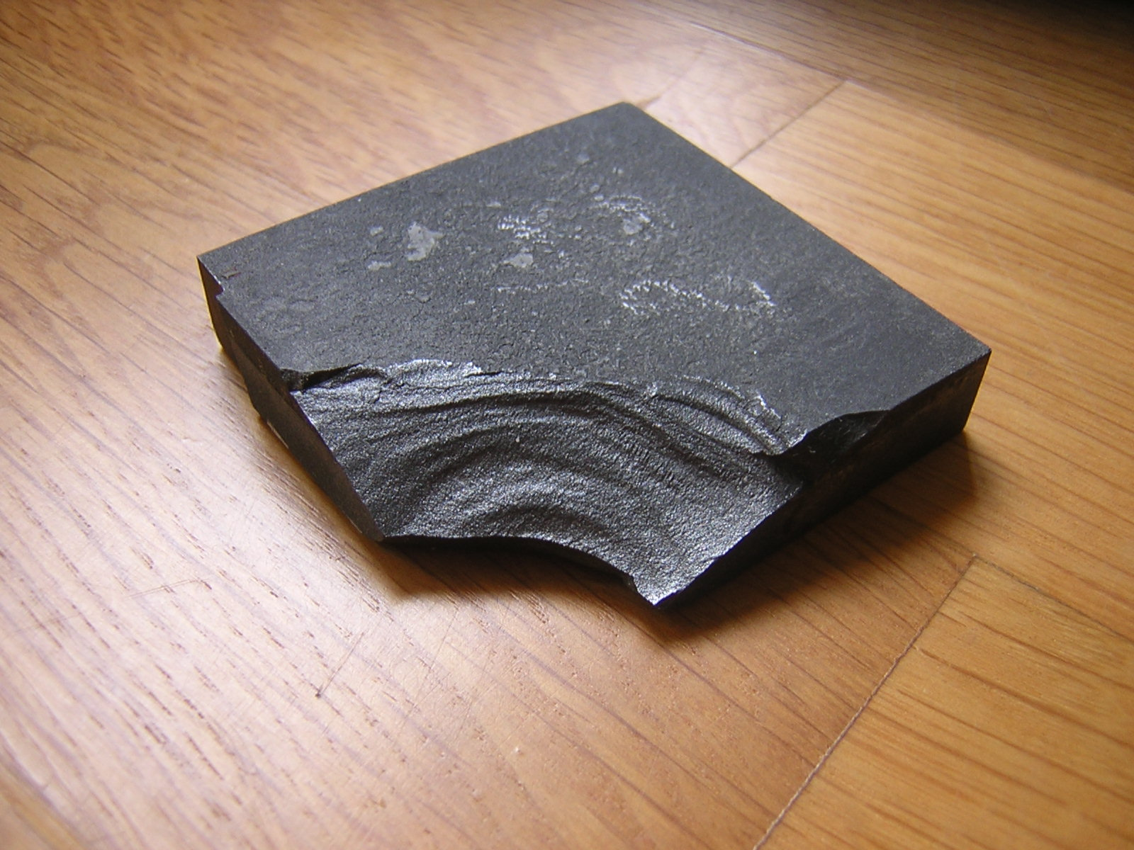 A piece of Boron carbide (B4C) on an oak wooden floor